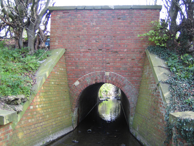 The Rye at Gutters Bridge The Rye is a short tributary of the River Mole that flows down through Leatherhead Common. Gutters Bridge used to carry Randalls Road over the stream but the road has been straightened and a culvert under the new alignment built further upstream.